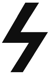 The cursive writing of the Sigel/Sol rune found in the contexts of Germanic mysticism where this is known as the "Sig" rune after Guido von List's "Armanen Futharkh".